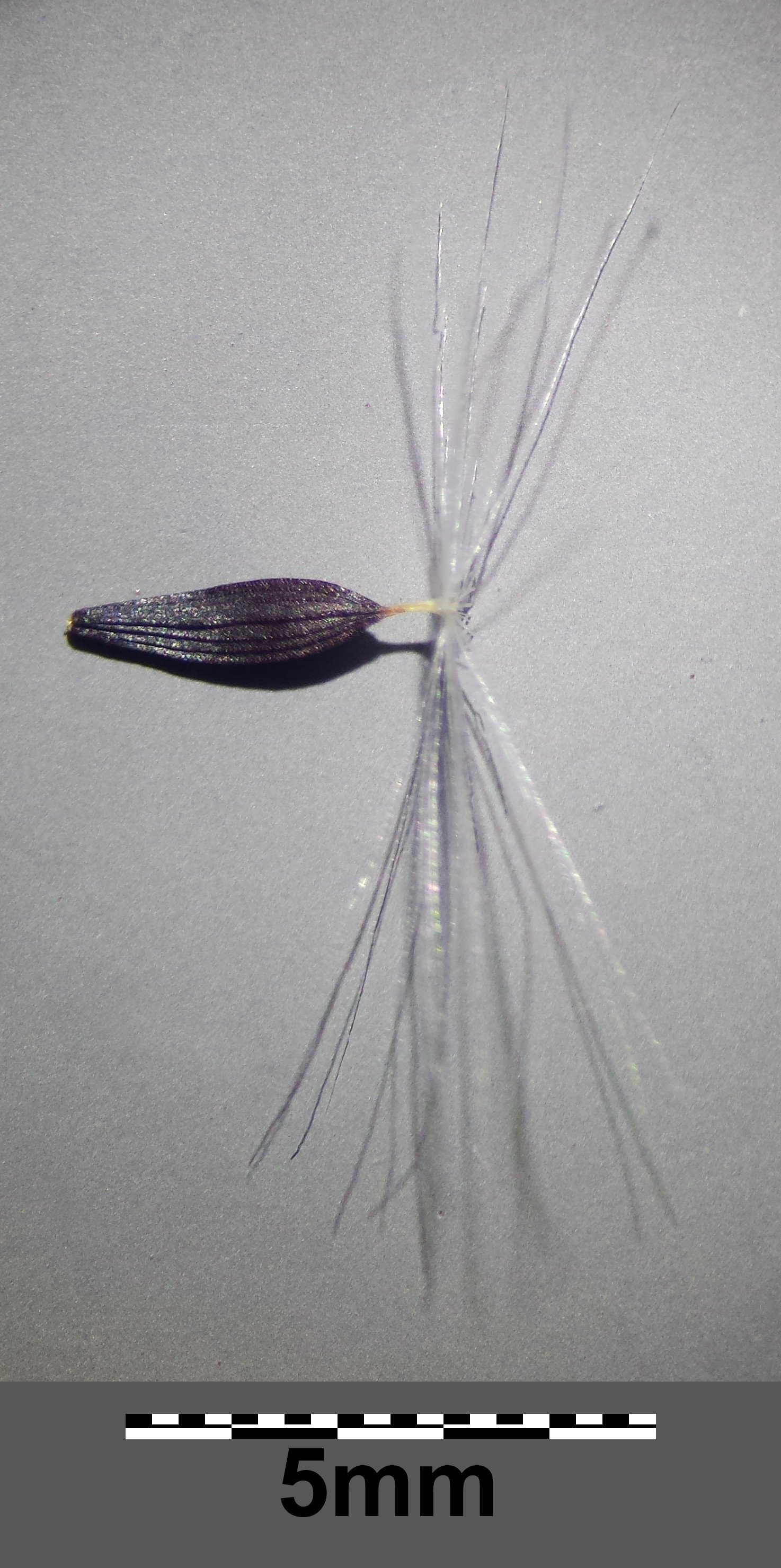 Achene with pappus Taxonym: Lactuca muralis ss Fischer et al. EfÖLS 2008 ISBN 978-3-85474-187-9 Location: near Raingrubenhöhe/Bruderndorf, district Korneuburg, Lower Austria - ca. 275 m a.s.l. Habitat: wayside within a wood